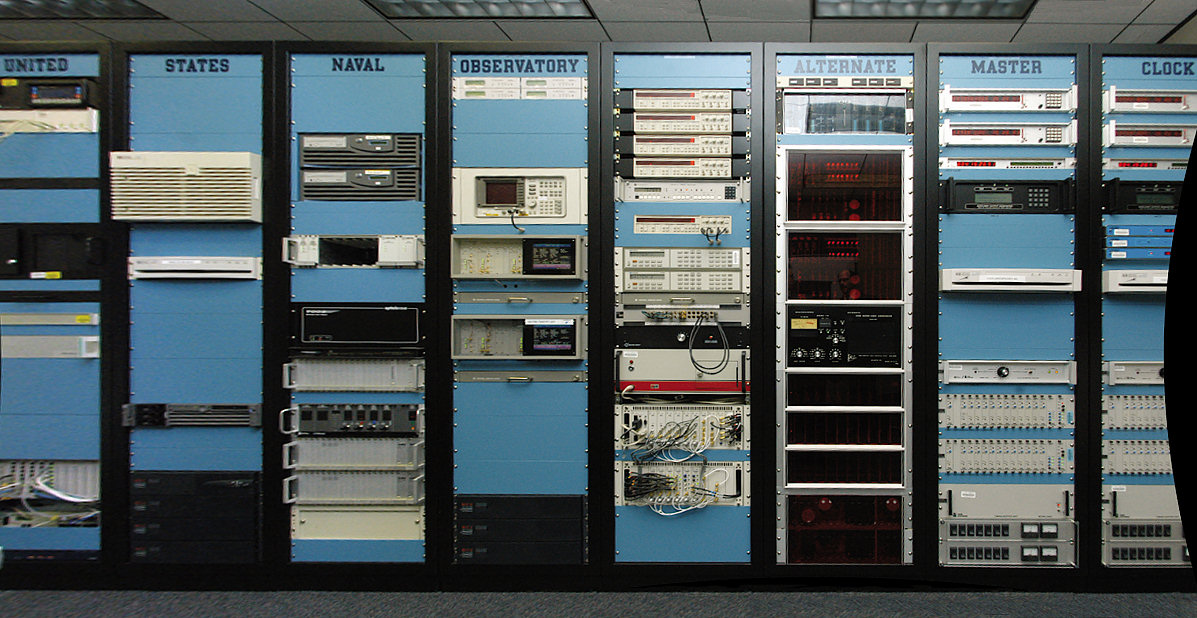 The US Naval Observatory (USNO) Alternate Master Clock at Schriever Air Force Base, Colorado. This serves as an alternate to the master clock ensemble at USNO, Washington, D.C., to determine the time standard for the United States Department of Defense, and also contributes to the international atomic time standard UTC. It consists of an ensemble of caesium beam atomic clocks which are all compared with each other to keep them synchronized. It serves as a Stratum 0 time server for the Network Time Protocol (NTP).